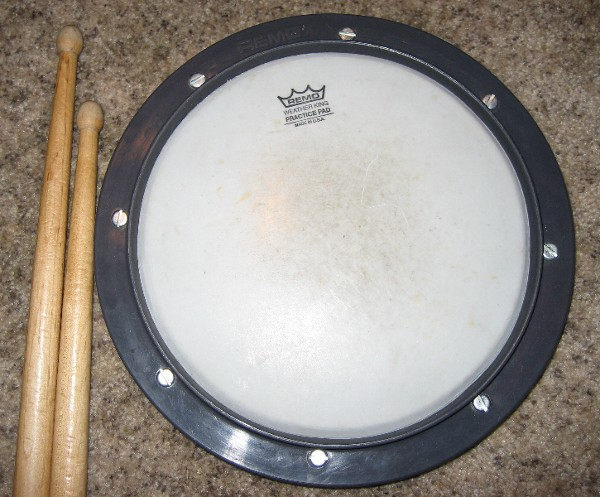 A Remo WeatherKing Practice pad and sticks for comparison. Taken by me on November 18th, 2006.